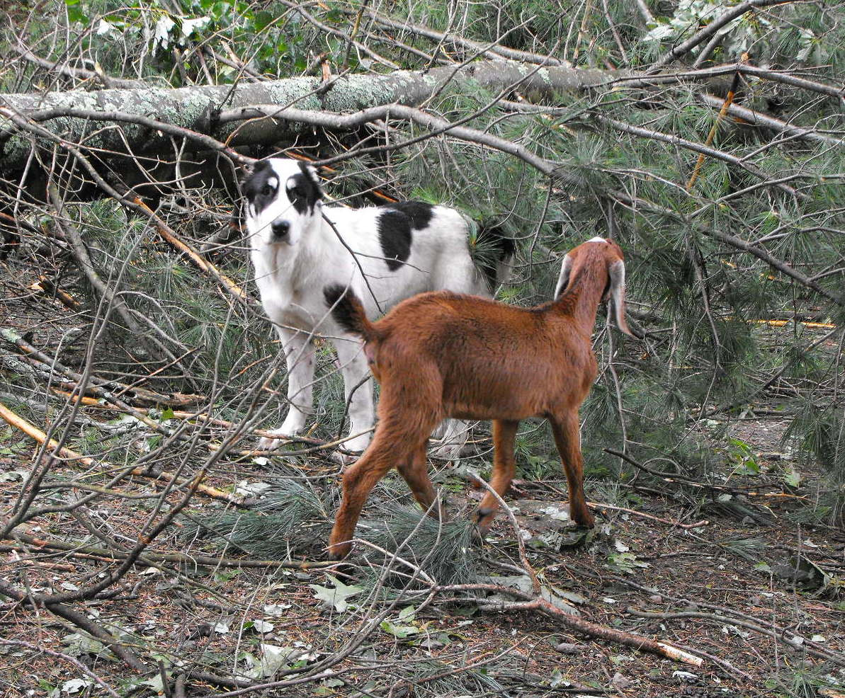 Central Asian pup Sofka and her Nubian goat friend Annastasia walking around fallen trees after hurricane in PA